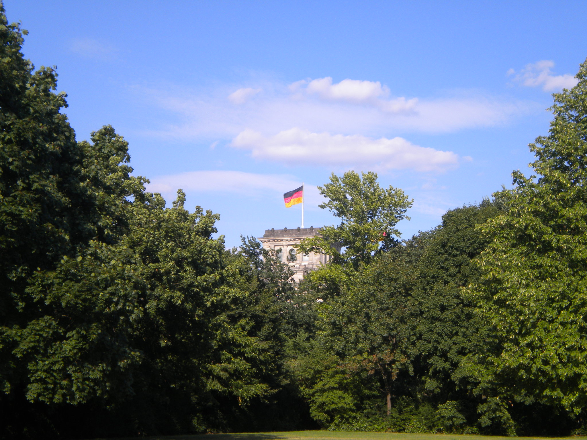 Reshtag from Russian War Memorial